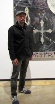 Philippine National Artist Manuel Ocampo in Montpellier, France